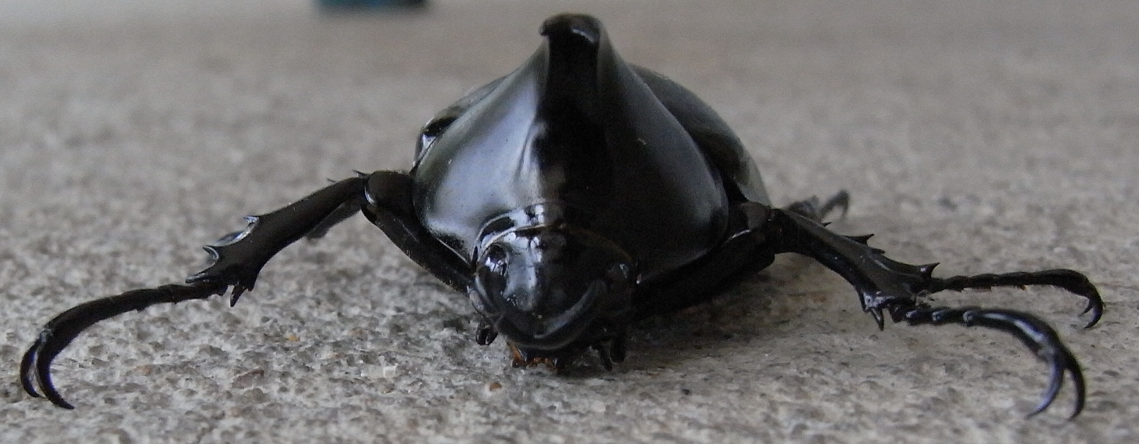 Living Rhinozeros Beetle (Xylotrupes ulysses australicus), cranial view, found on a concrete floor in Canungra, Queensland, Australia.